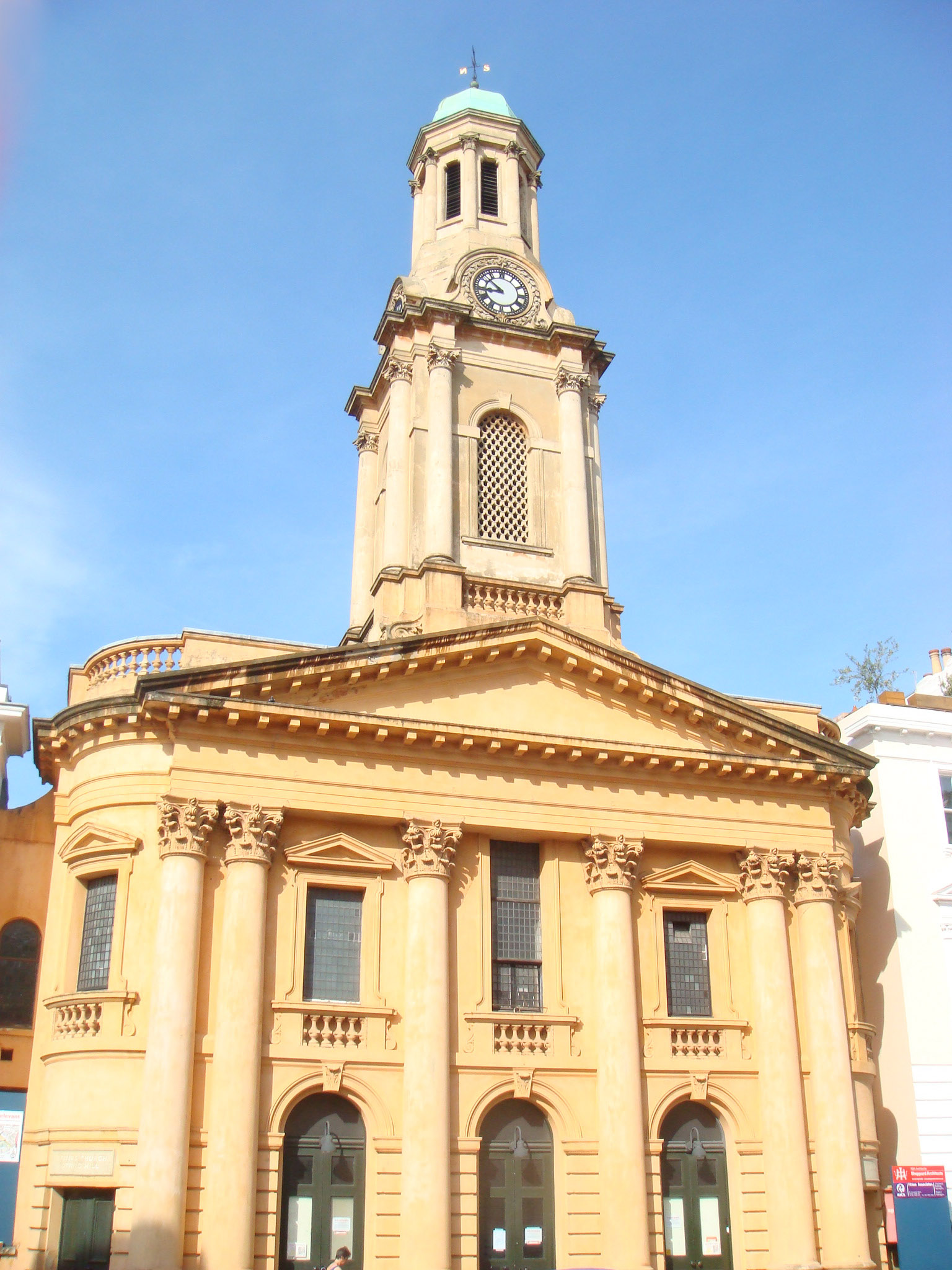 St Peter's parish church, Kensington Park Road, Notting Hill, London W11, seen from the west